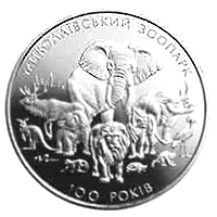 Coin of Ukraine